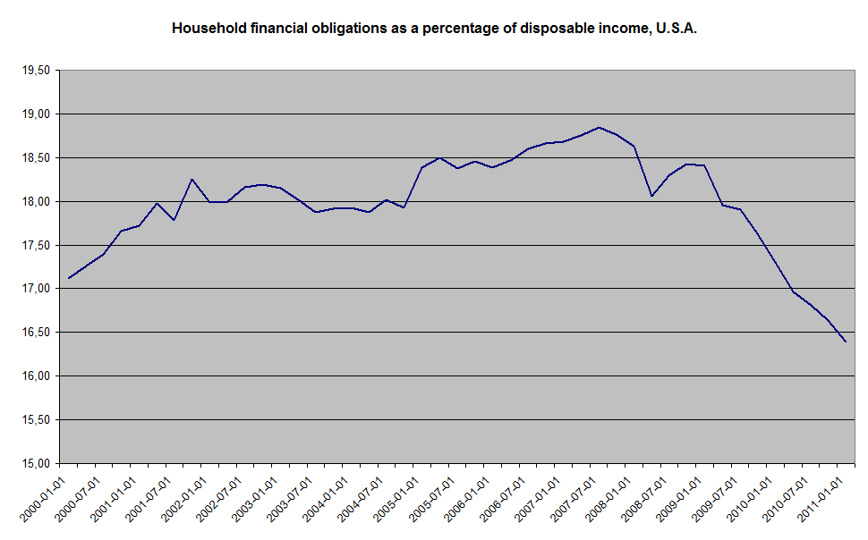 Development of financial obligations of US households as a percentage of disposable income. Source: Federal Reserve Bank of St. Louis, Economic Research, series ID FODSP.